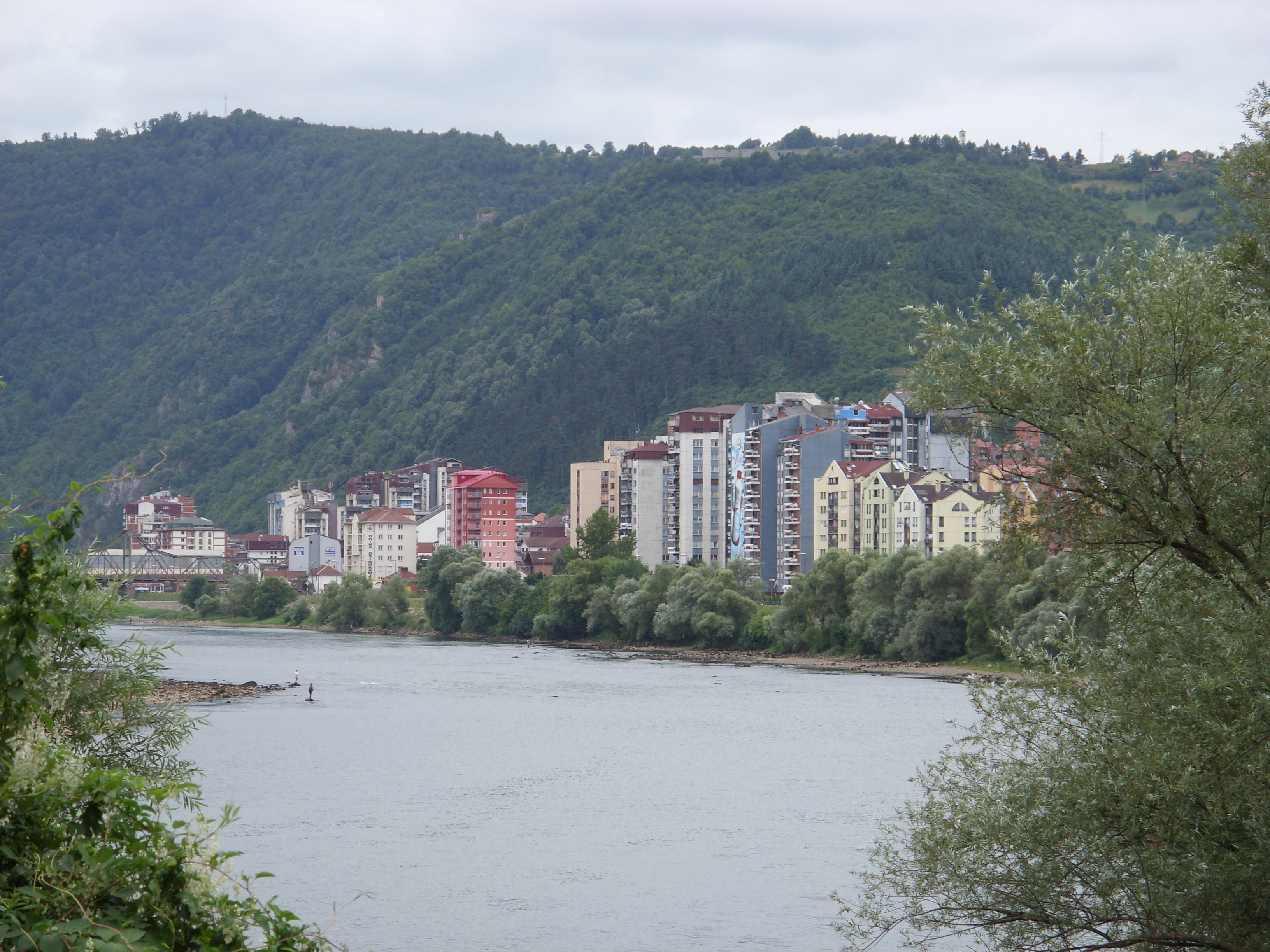 The city of Zvornik on River Drina (Bosnia and Herzegovina).